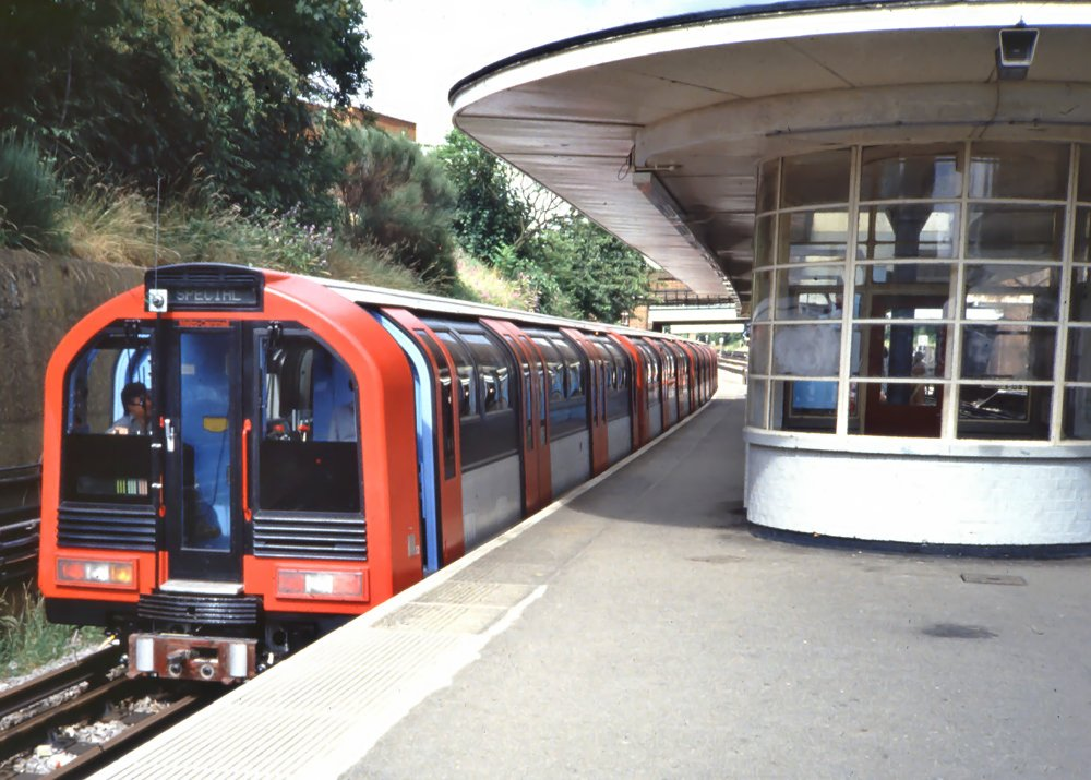 The Red 1986 prototype London Underground train at South Ealing station on the test track whilst undergoing trials.